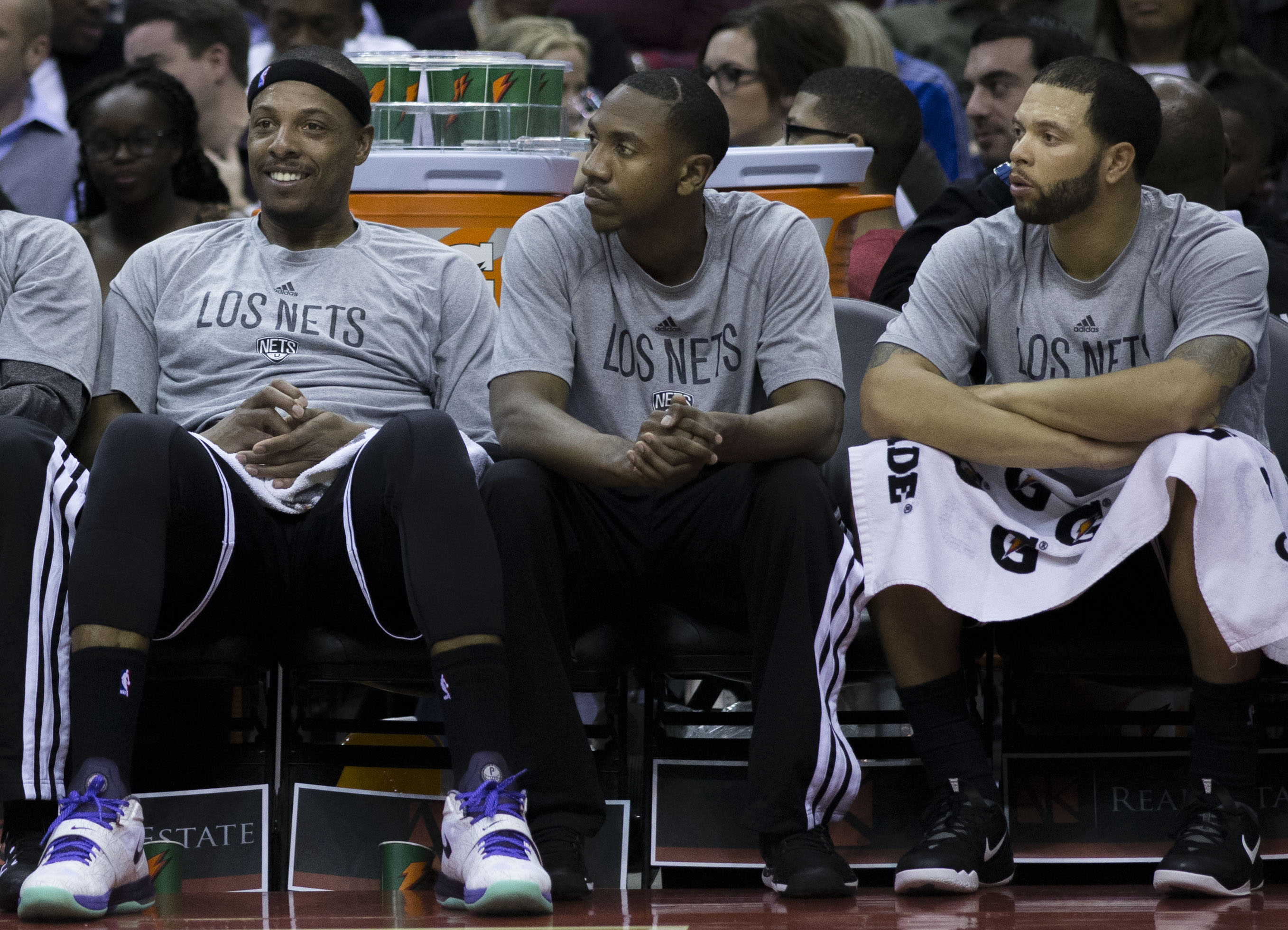 Nets at Wizards 3/15/14